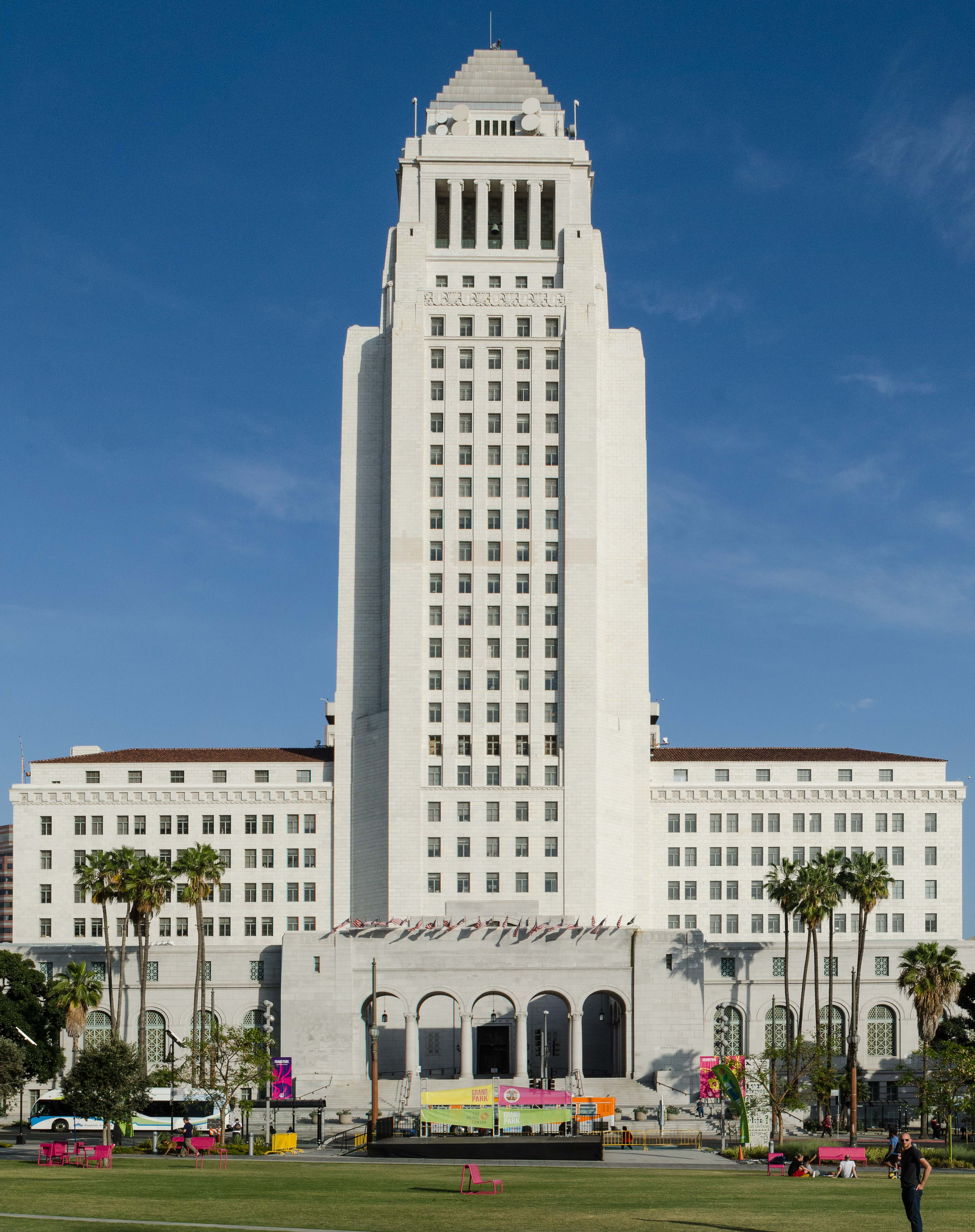 City Hall as seen from Grand Park. (Benjamin Dunn/Neon Tommy)